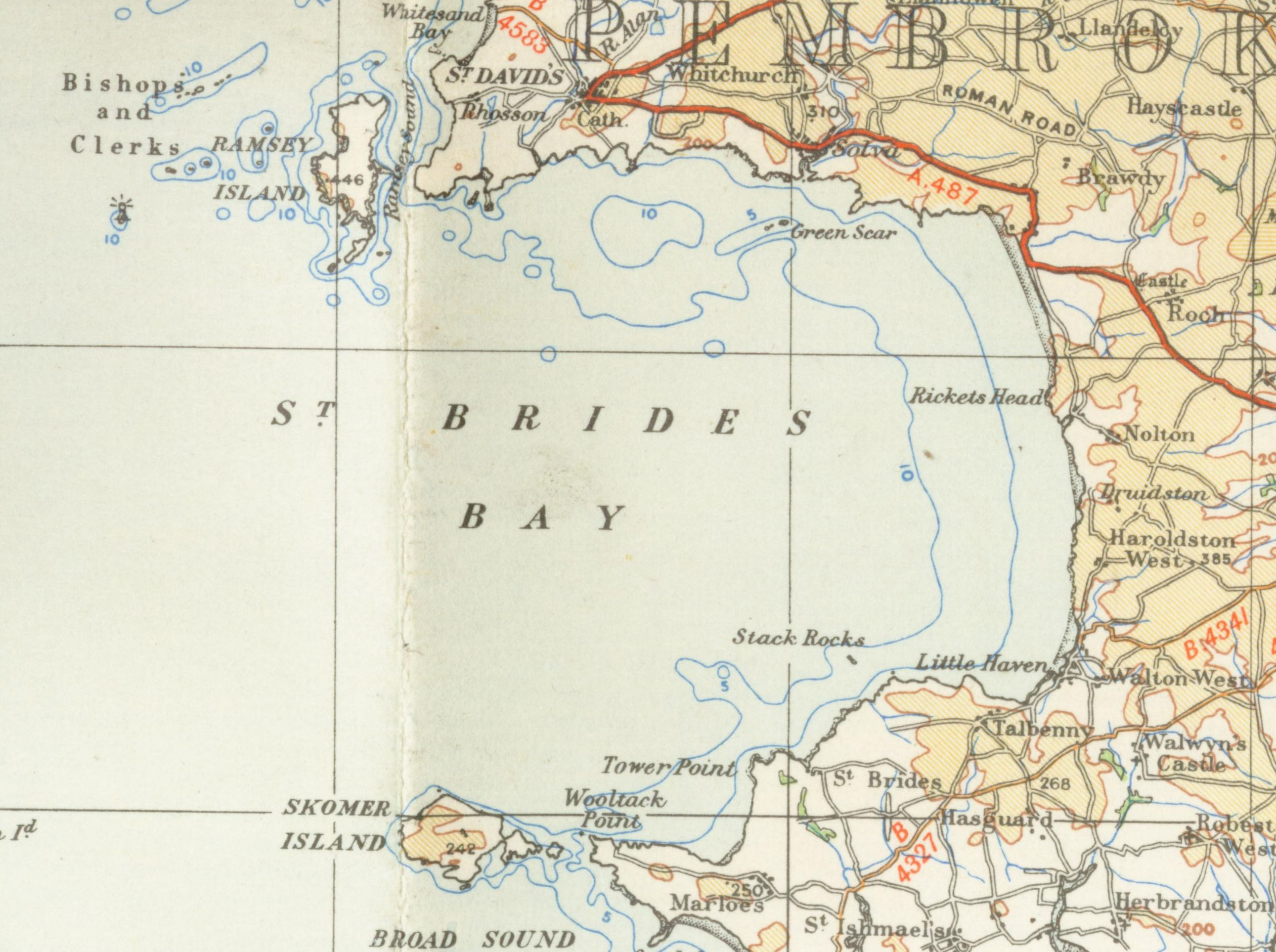 Old OS map from 1946 of Bride's_bay 1/4 inch to the mile